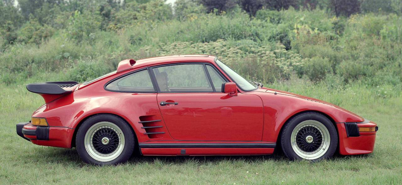 A 1982 Porsche 911SC was modified into a "Flachbau" ("slantnose") by Camillo & Domenico Scaduto of Carrozzeria Italia at their restoration shop in Escondido, California. This type of modification was first offered by Porsche for their 930 Turbo under a special program since 1981. The front end was restyled after the racing 935s. According to some sources, Porsche built 948 units. Domenico Scaduto and his son Camillo Scaduto handcrafted the "Flachbau" as Porsche did with steel fenders before the advent of lesser quality fiberglassed modifications by other shops. Yet, over the years, they were able to build 87 units in Southern California before the style faded.